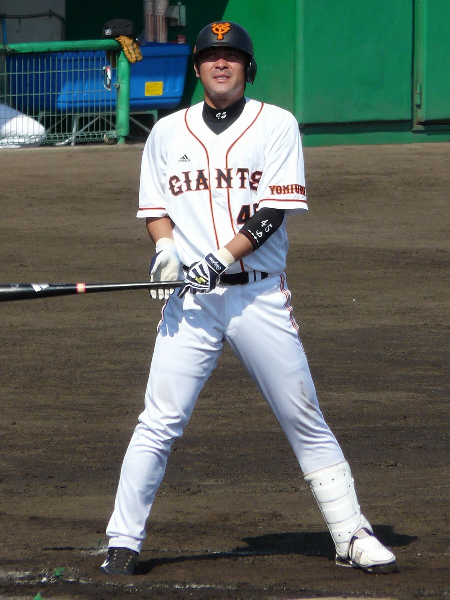 Masakuni-Odajima